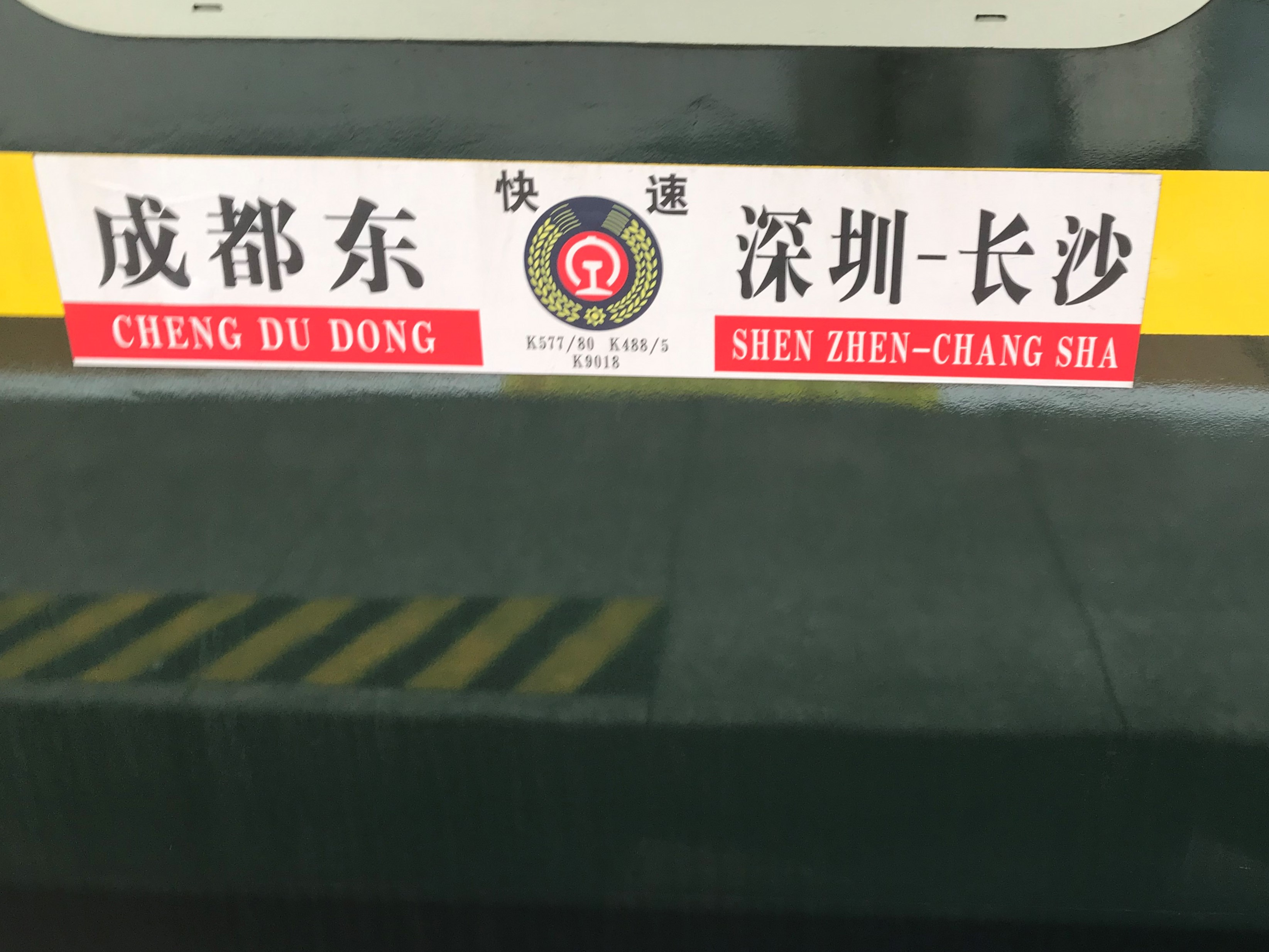 Very complicated routes....